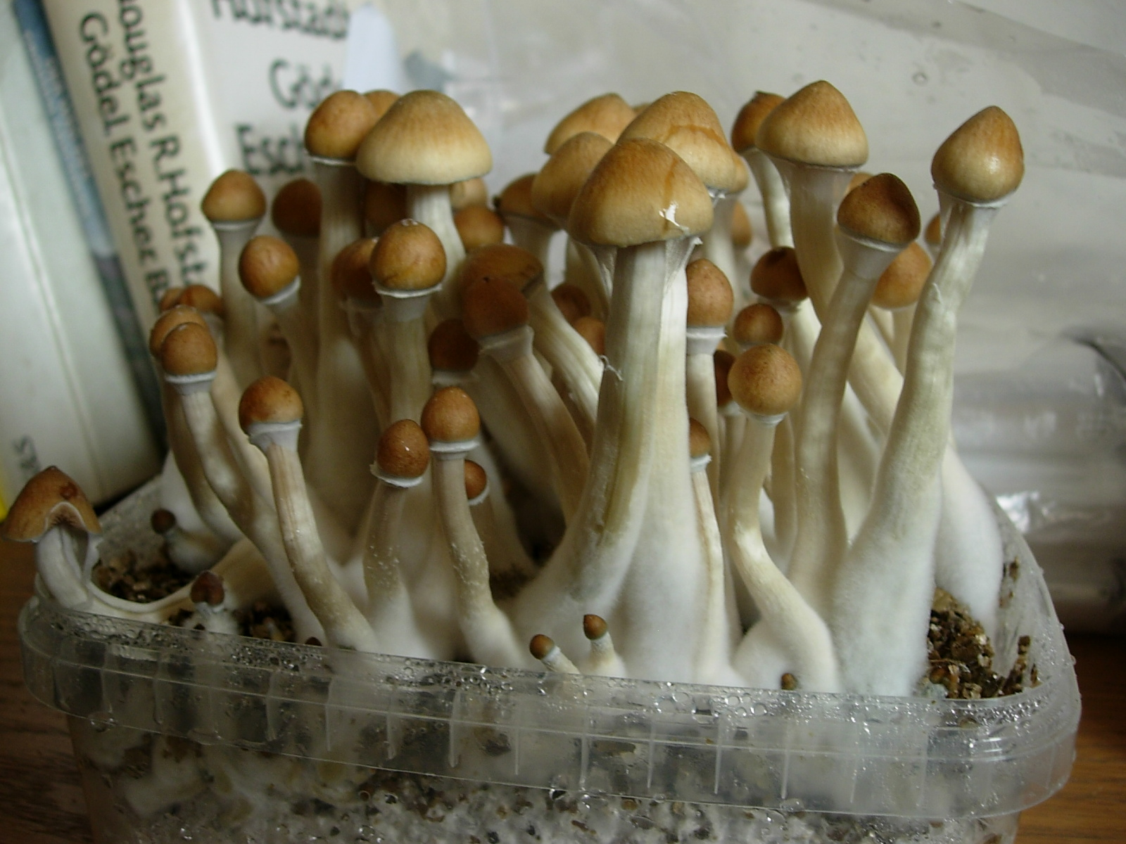 Growbox with nearly mature P. Cubensis.